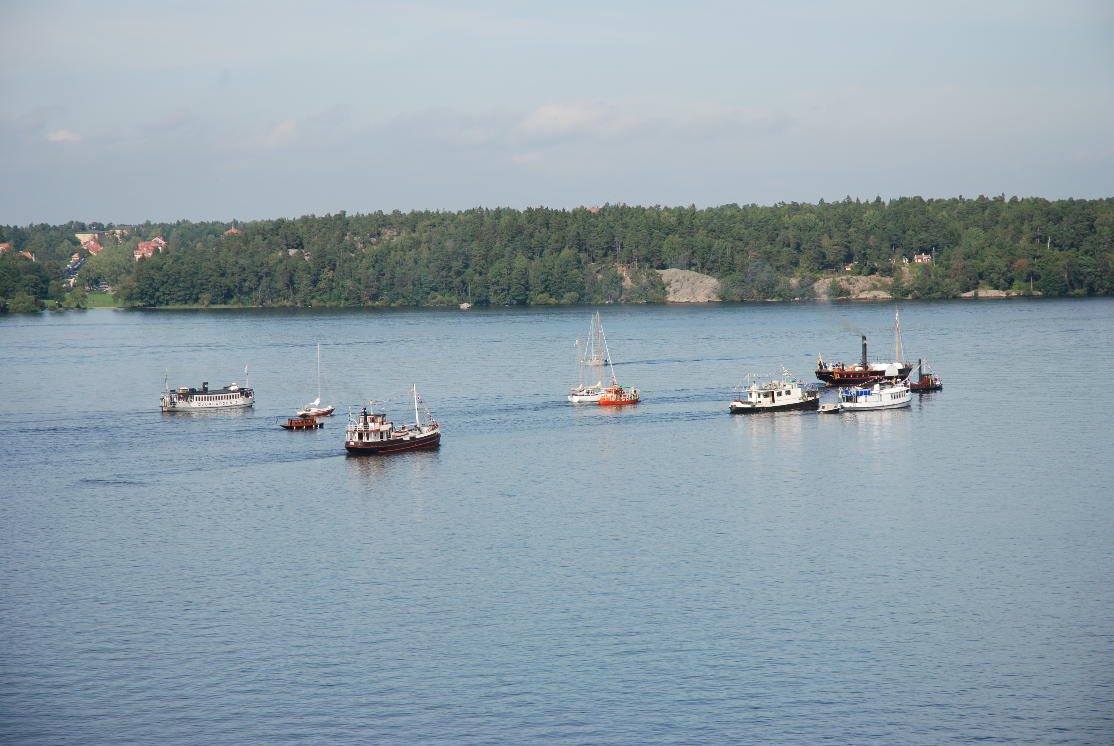 Eric Nordevall II on her maiden voyage to Stockholm 2011-08-26, escorted by a number of ships och boats. To the extreme left steam ferry S/S Djurgården III. The picture is taken 7 km west of Stockholm and shows part of Brommalandet at Bromma in the city of Stockholm.